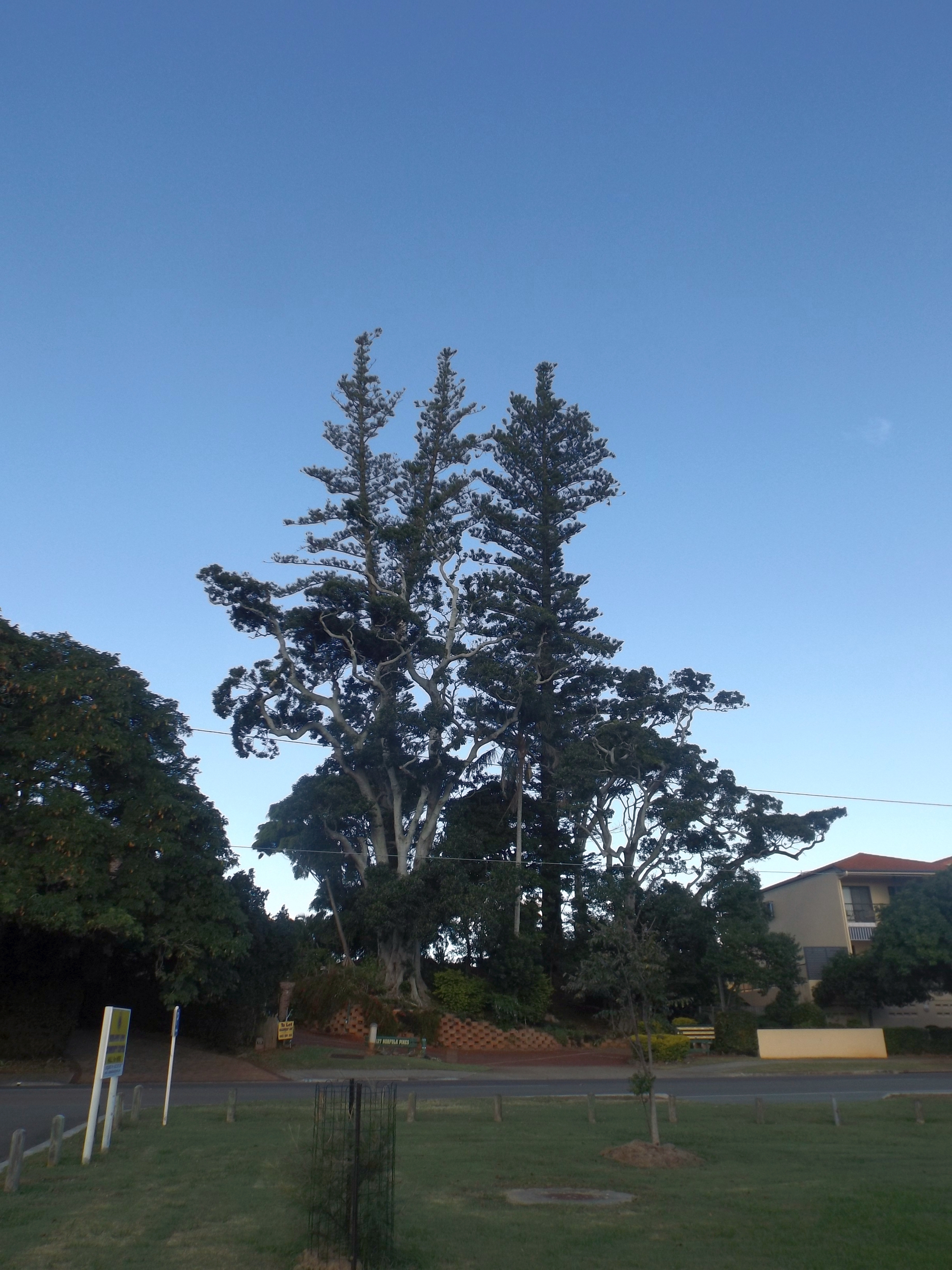 Photo of Norfolk Island Pine Trees at Cleveland, City of Redlands, Queensland, Australia.